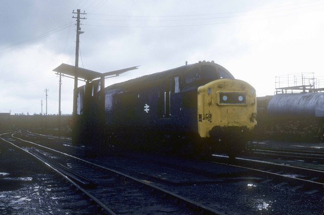 Horrid day at Grangemouth depot